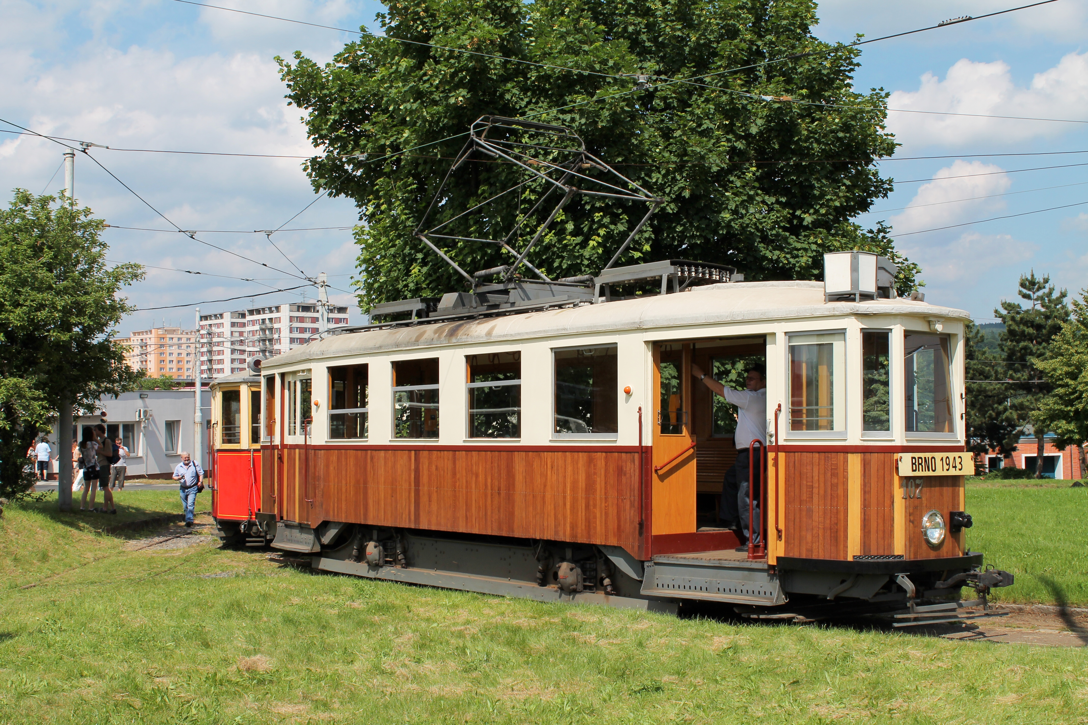 Historical tram No. 107 with tram trailer No. 215, Medlánky depot, Brno, Czech Republic - OpenStreetMap(Info)